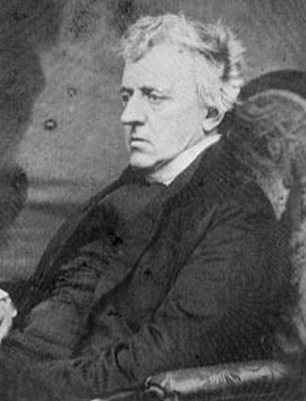 Archdeacon Dodgson, father of Lewis Carroll; photo by Carroll